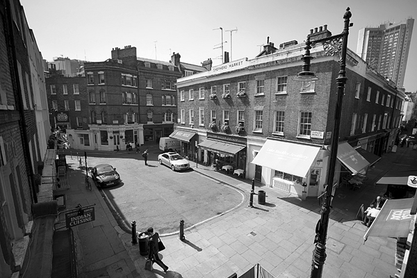 Shepherd Market, Mayfair, London W1J